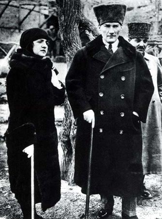 Mustafa Kemal Atatürk and his wife, Latife Uşşaki (1923).